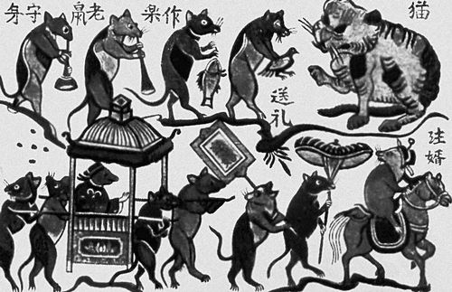 "Lao Thu Thu Tan: Old Rat Taking a Bride", a woodblock print, produced by artisans from the village of Dong Ho in North Vietnam. Such prints are tradtionally produced for new year celebrations, and have been emulated in a painting of at least one artist (Hien Pham; Note also interesting similarity to an 18th century Russian woodcut, Image:Mice-burying-the-cat.jpg